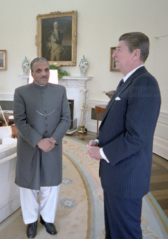 U.S. Government - Image courtesy of the Ronald Reagan Presidential Library, film number C11730-6A